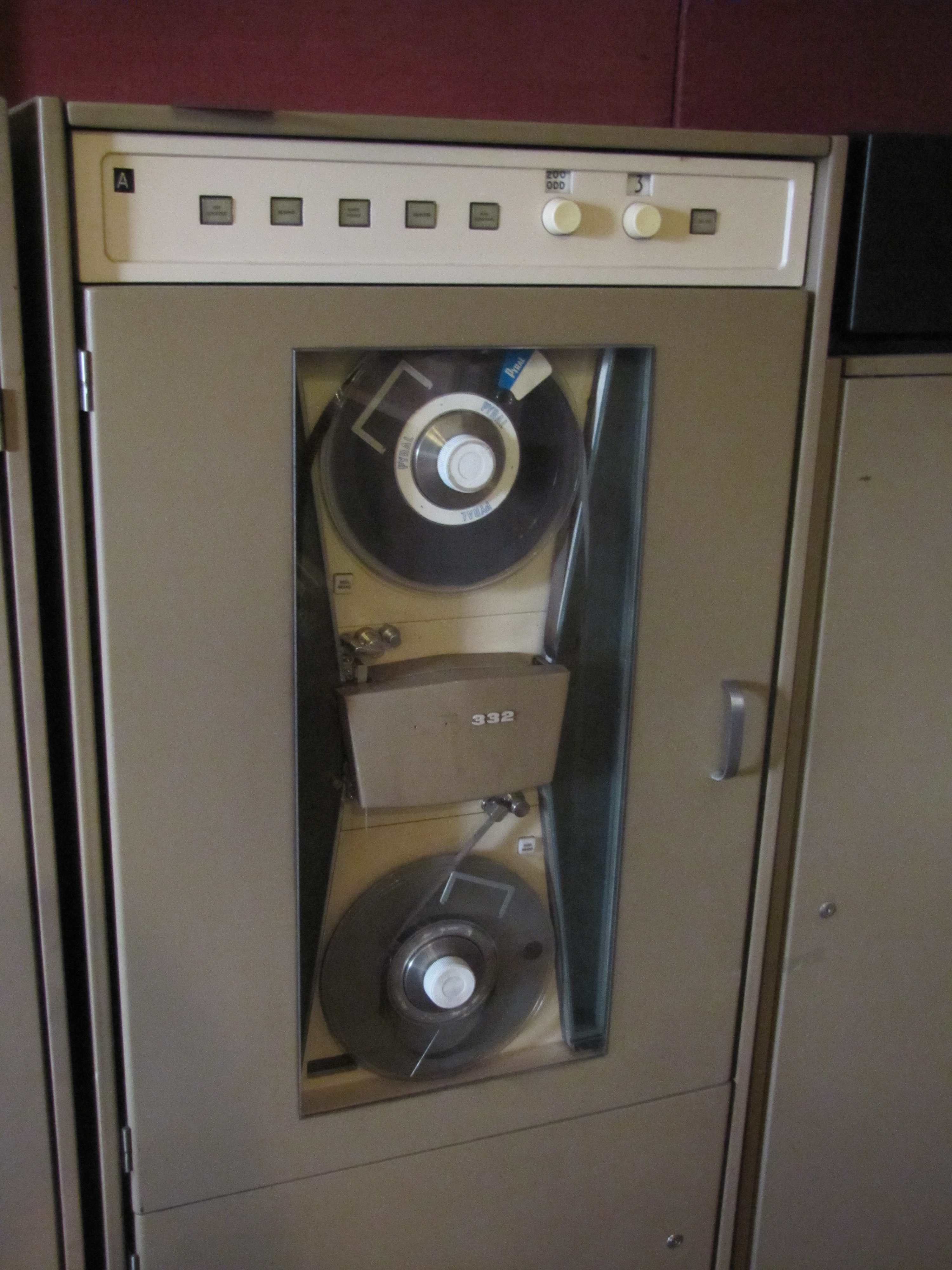 Photo taken in Warsaw Museum of Technology.